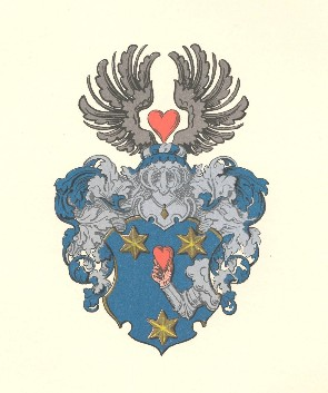 Coat of arms